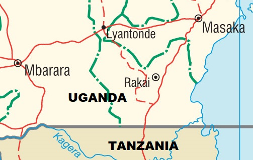 Map of south-eastern Uganda with Tanzanian border. Derivative of CIA map